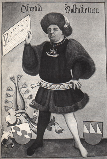 Oswald von Wolkenstein, late medieval poet, composer and knight